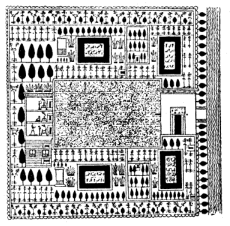 Garden drawing, Beni Hassan, Egypt c. 2300 BC